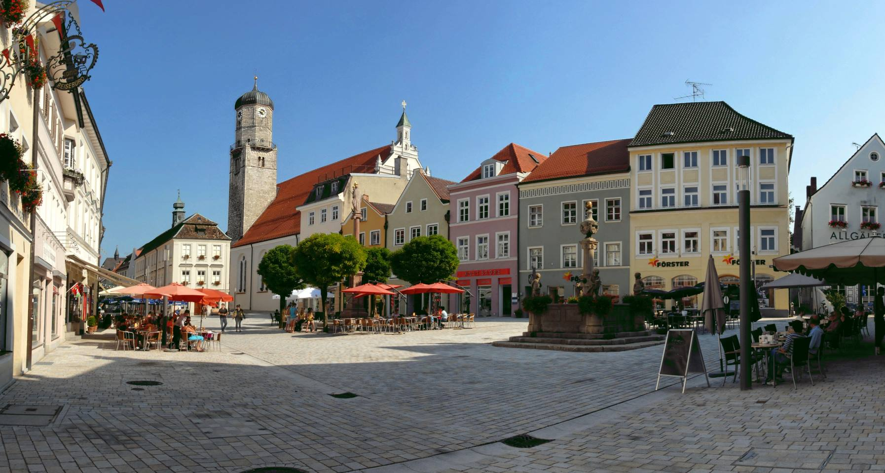 Weilheim, Panorama place Marienplatz